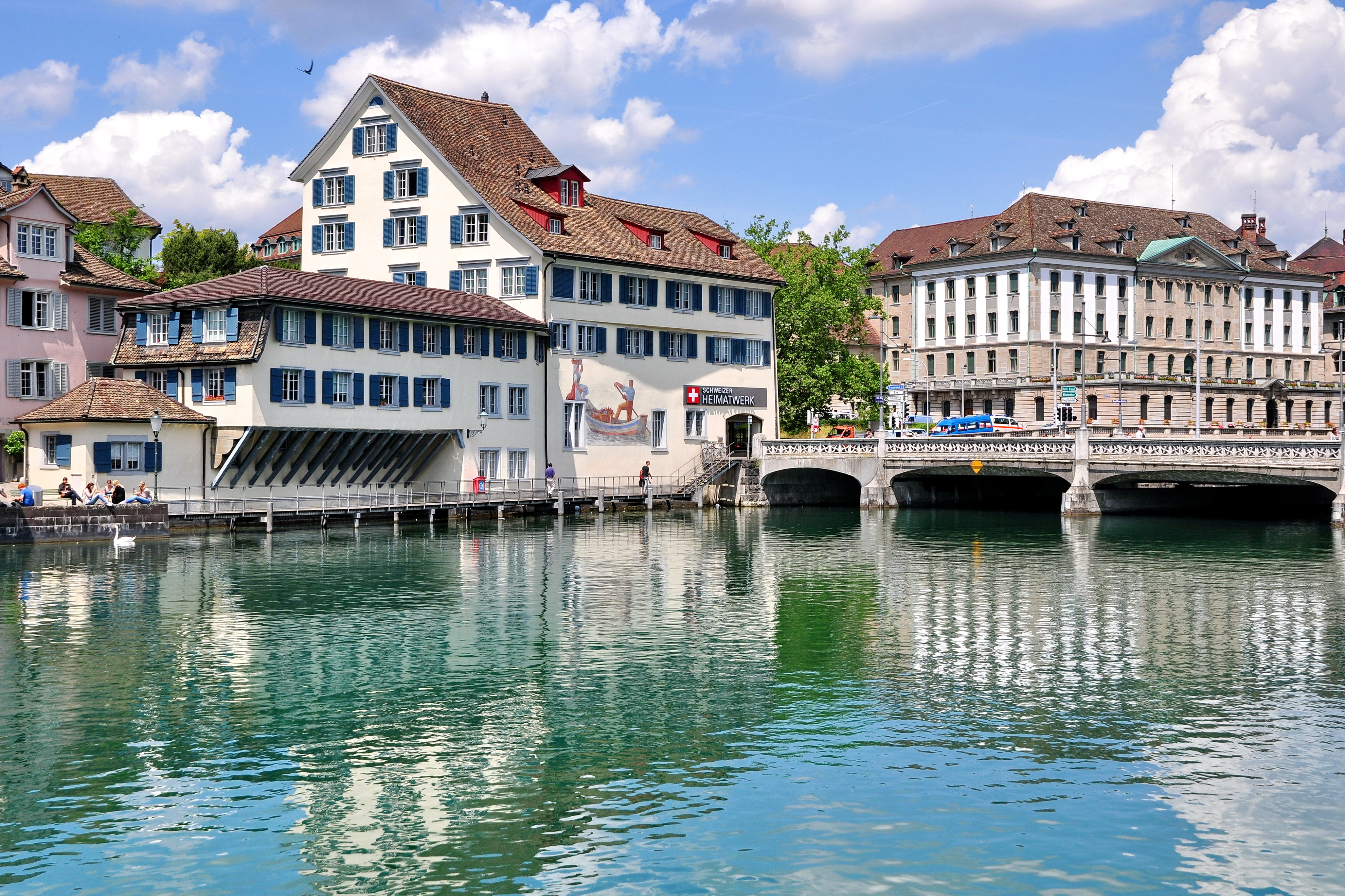 Zürich : Schipfe and Heimatwerk building, as seen from Limmatquai, City Police station (former Waisenhaus (orphanage) to the right at Bahnhofquai.